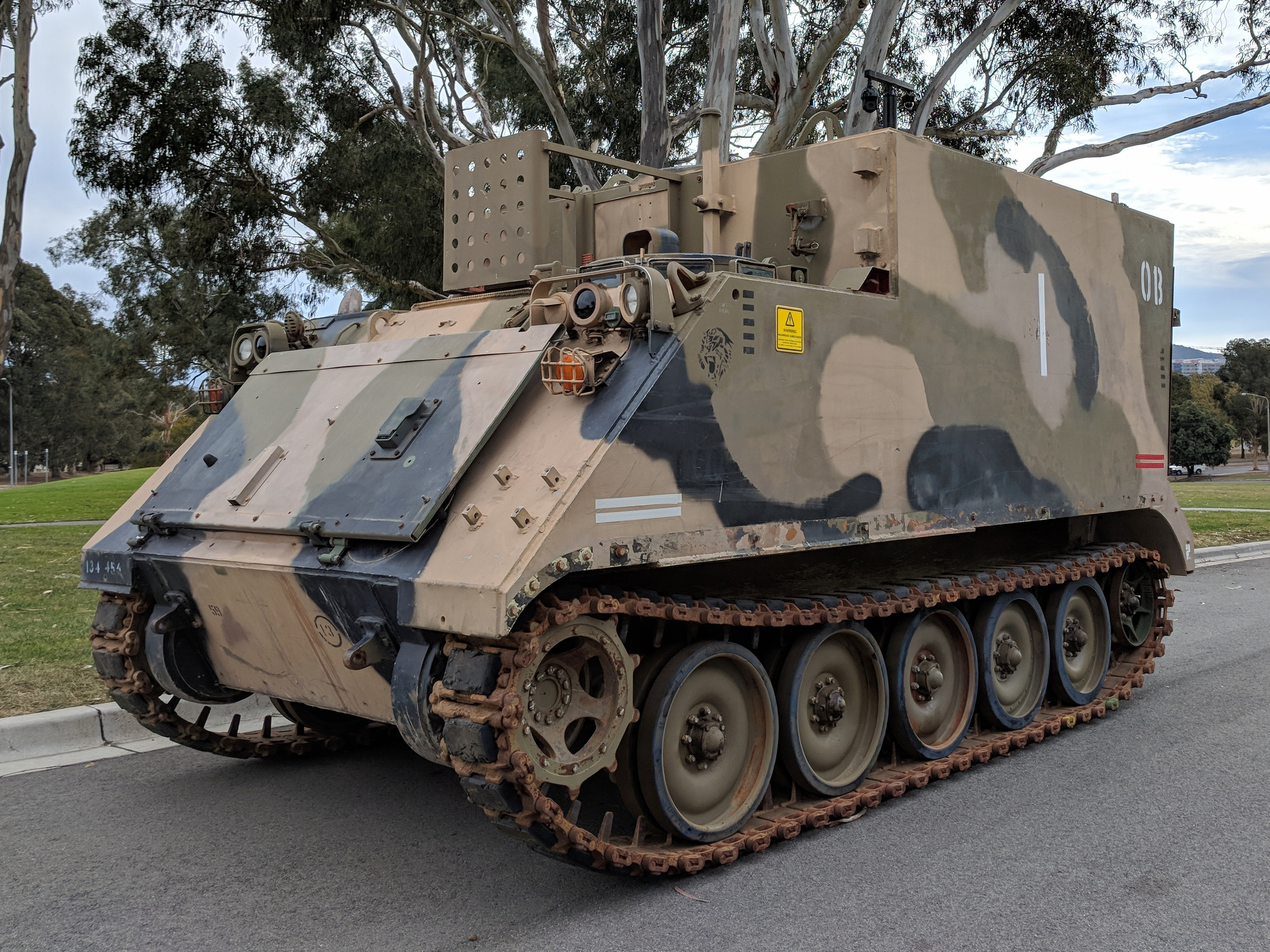 A former Australian Army M577 Command Post Carrier on display outside the Australian War Memorial